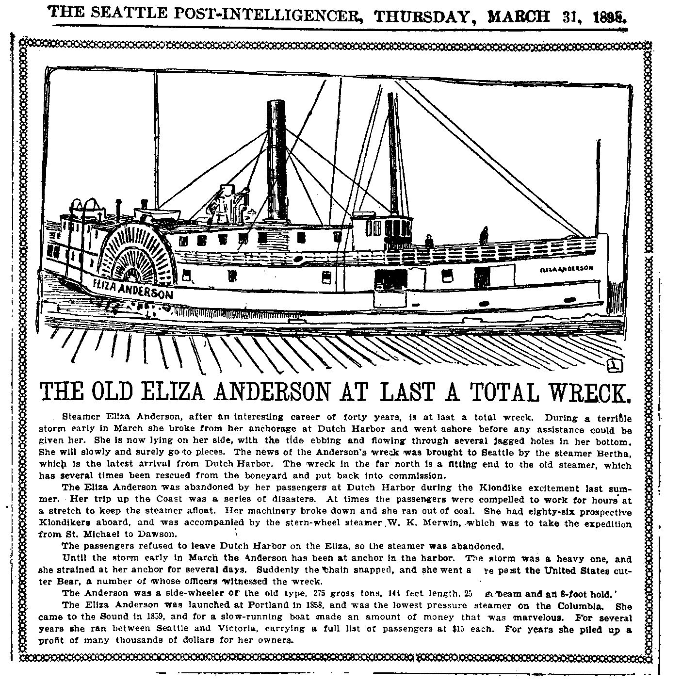 Newspaper story published 1897 regarding loss of the steamship Eliza Anderson